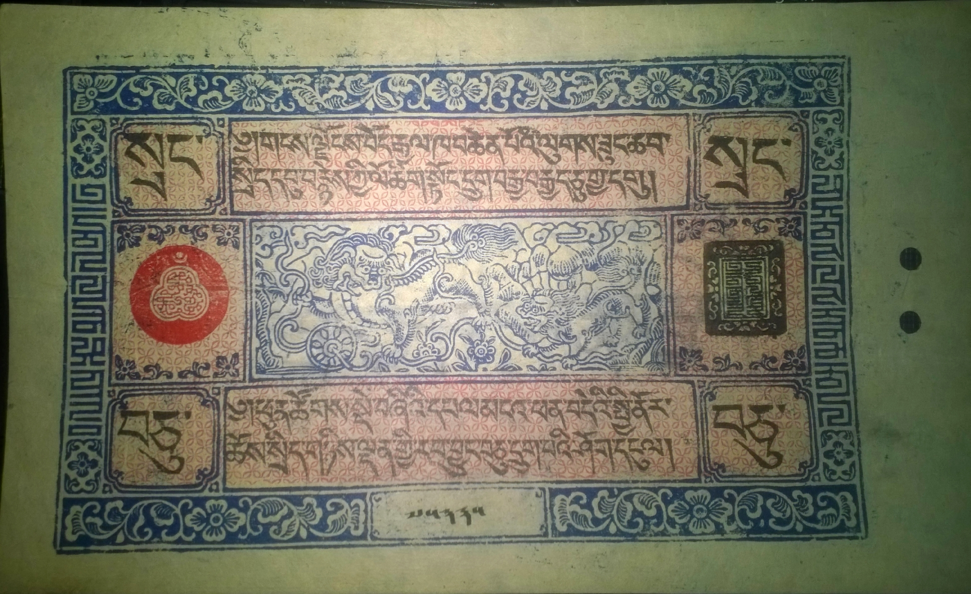 Tibetan Currency Use before 1959